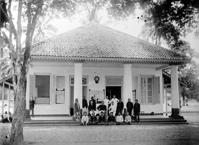 Negative. The most well known Assistant Resident of the belles-lettres, is of course Max Havelaar, Assistant Resident in Lebak, Bantam Residence, Java. Eduard Douwes Dekker, writing under the pseudonym Multatuli, himself served as as Assistant Resident of Lebak in 1865. The Assistant Resident stood directly under the Resident and was usually located in another regency than the latter, often more remote than the seat of the Resident. He had, as the top European official on site, much personal jurisdiction. He had behave as the "older brother" of the Regent, which implied a relationship of authority, but by no means an unambiguous authority. (P. Boomgaard, 2001). The office of the assistant resident in Tasikmalaja